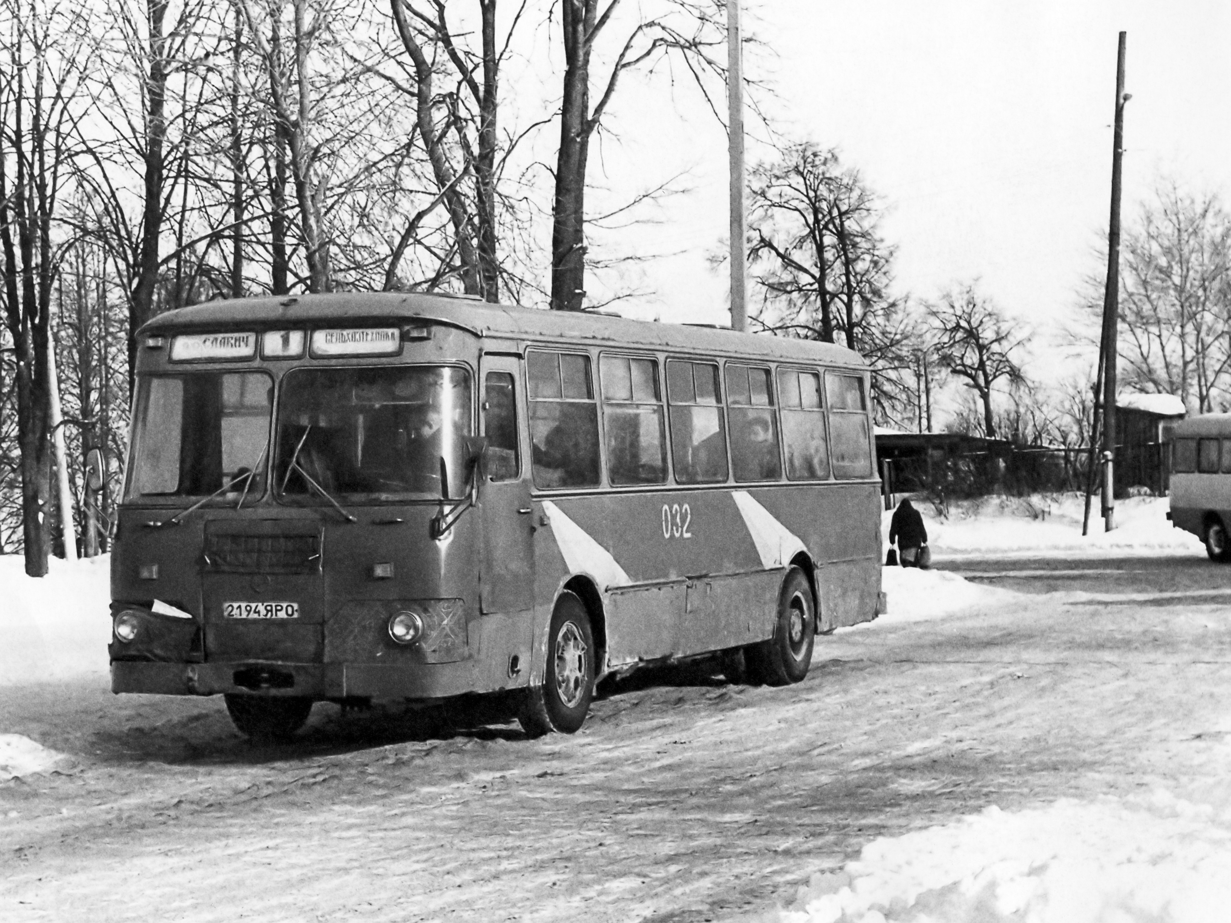 Bus LIAZ-677M, number 032, license plate 2194 ЯРО, stands facing south. Route 1 from Selkhoztekhnika to Slavich. Pereslavl, terminus Selkhoztekhnika. Behind the back of the bus is Pereslavl bus station.